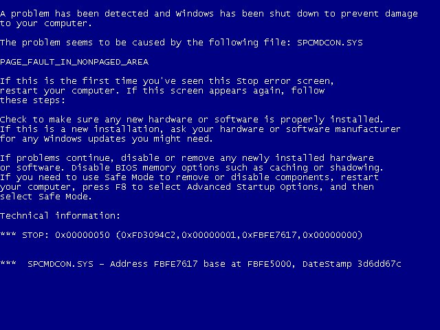 A Windows XP Blue Screen of Death (BSOD) by Syed Irfan Hussain, System Analyst Engineer UHS Lahore In my view the screen comes with a problem of collapsed dll file. The collapsed dll file conflicts with another dll working at the same port. In an encyclopedic article about screen of death or, specifically, the blue screen of death, it is pretty important to have a picture of one of these screen of death in for critical commentary and to properly illustrate the subject on hand. There is no way to get a genuine 'screen of death' without use of a copyrighted computer program, and use of this picture will in no way hurt Microsoft.